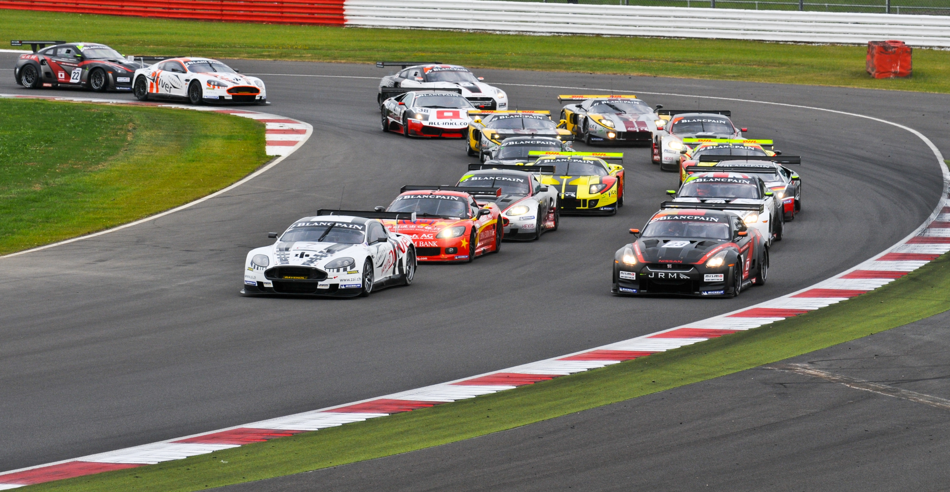 2011 FIA GT1 Silverstone round